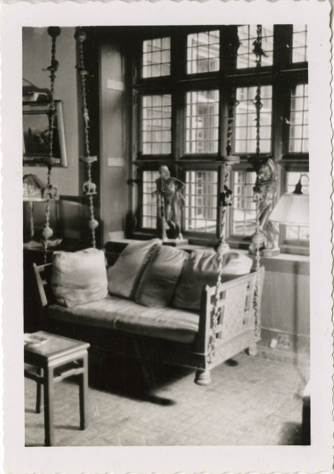 Deanery, Interior View of Swing Designed by Lockwood de Forest, Bryn Mawr College